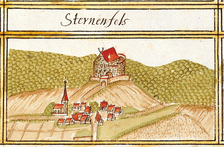 View of Sternenfels from the forest register books created by Andreas Kieser